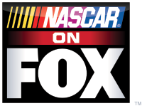 NASCAR On FOX Vertical Logo used from 2013-2014